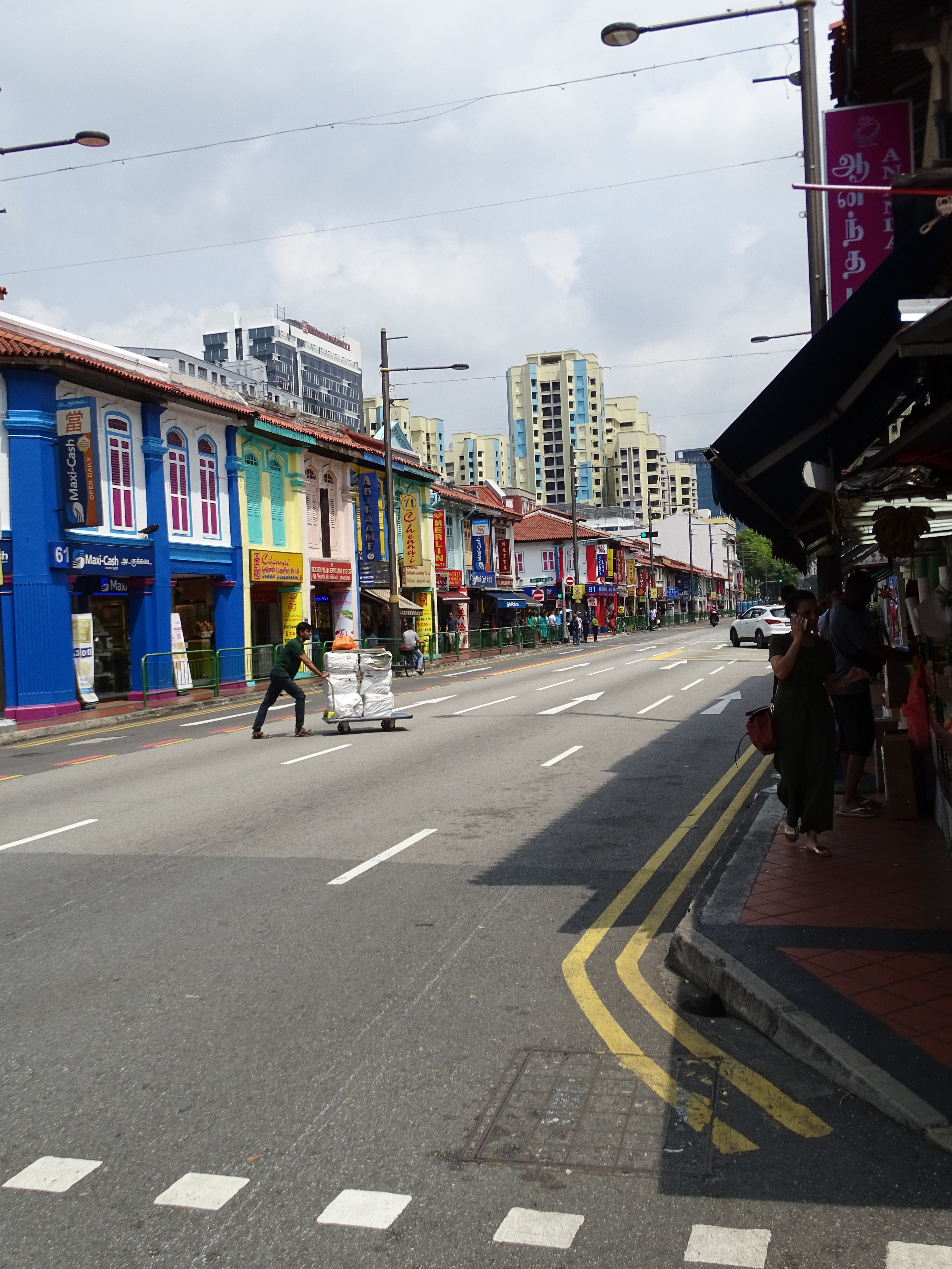 Little India, Singapore, Serangoon Road